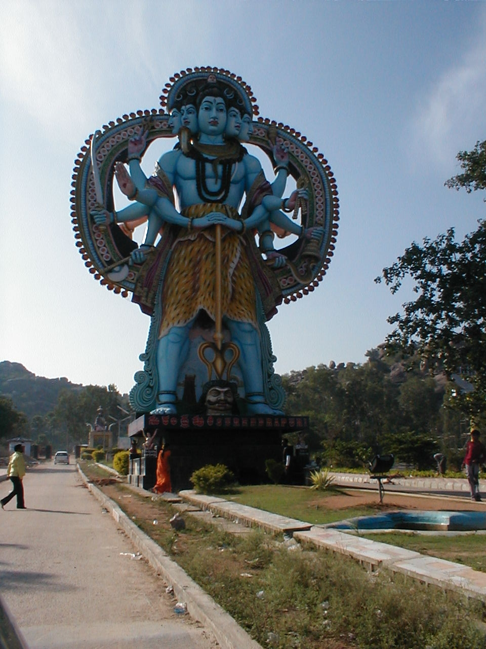 Surendrapuri Temple photos